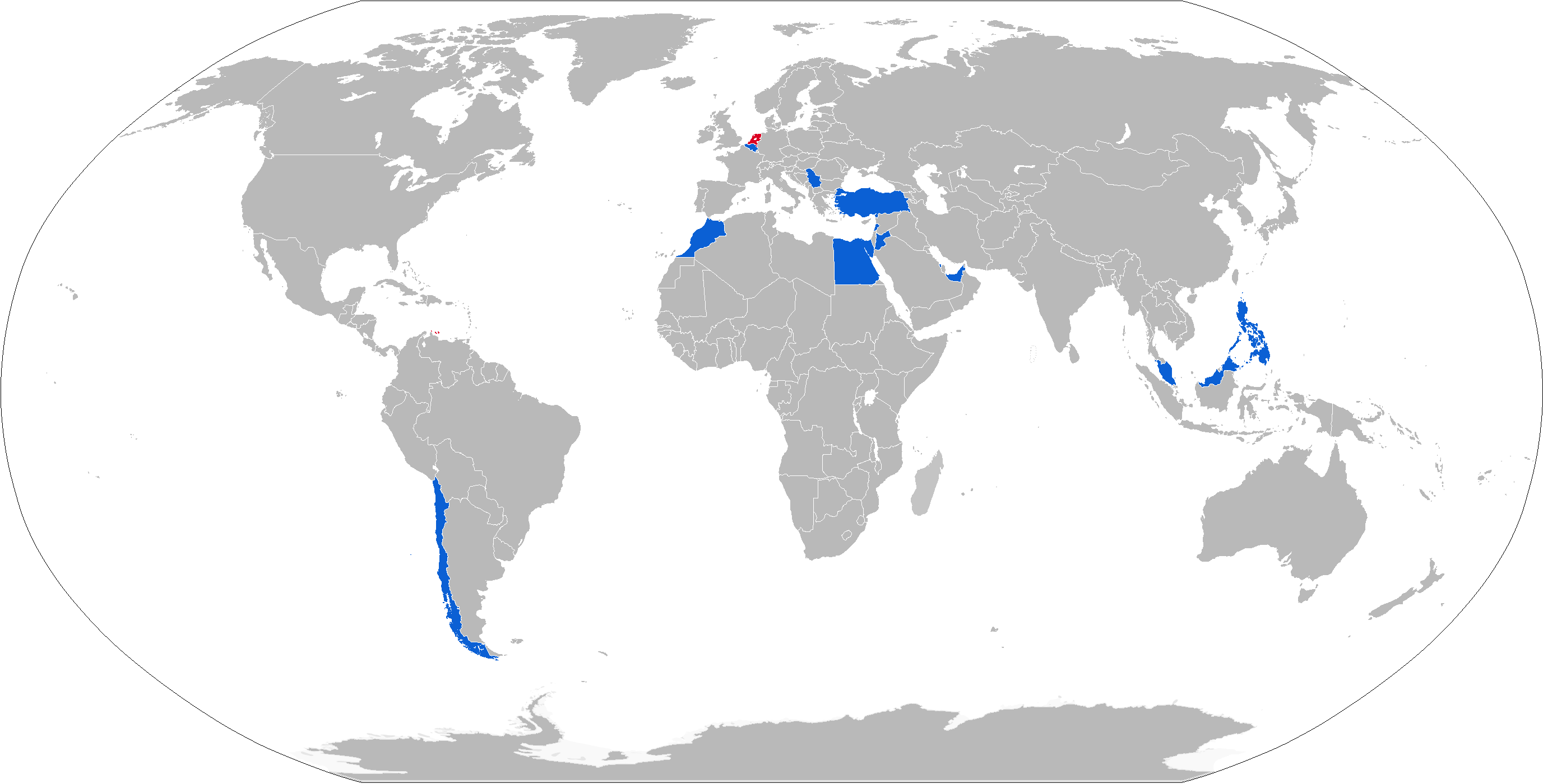 Map of AIFV operators in blue